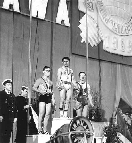 1969 World Weightlifting Championship, 56kg, Warsaw Poland, 1) Mohammad Nassiri (IRN), 2) Atanas Kirov (BUL),[:bg] 3) Hiroshi Ono (JPN)